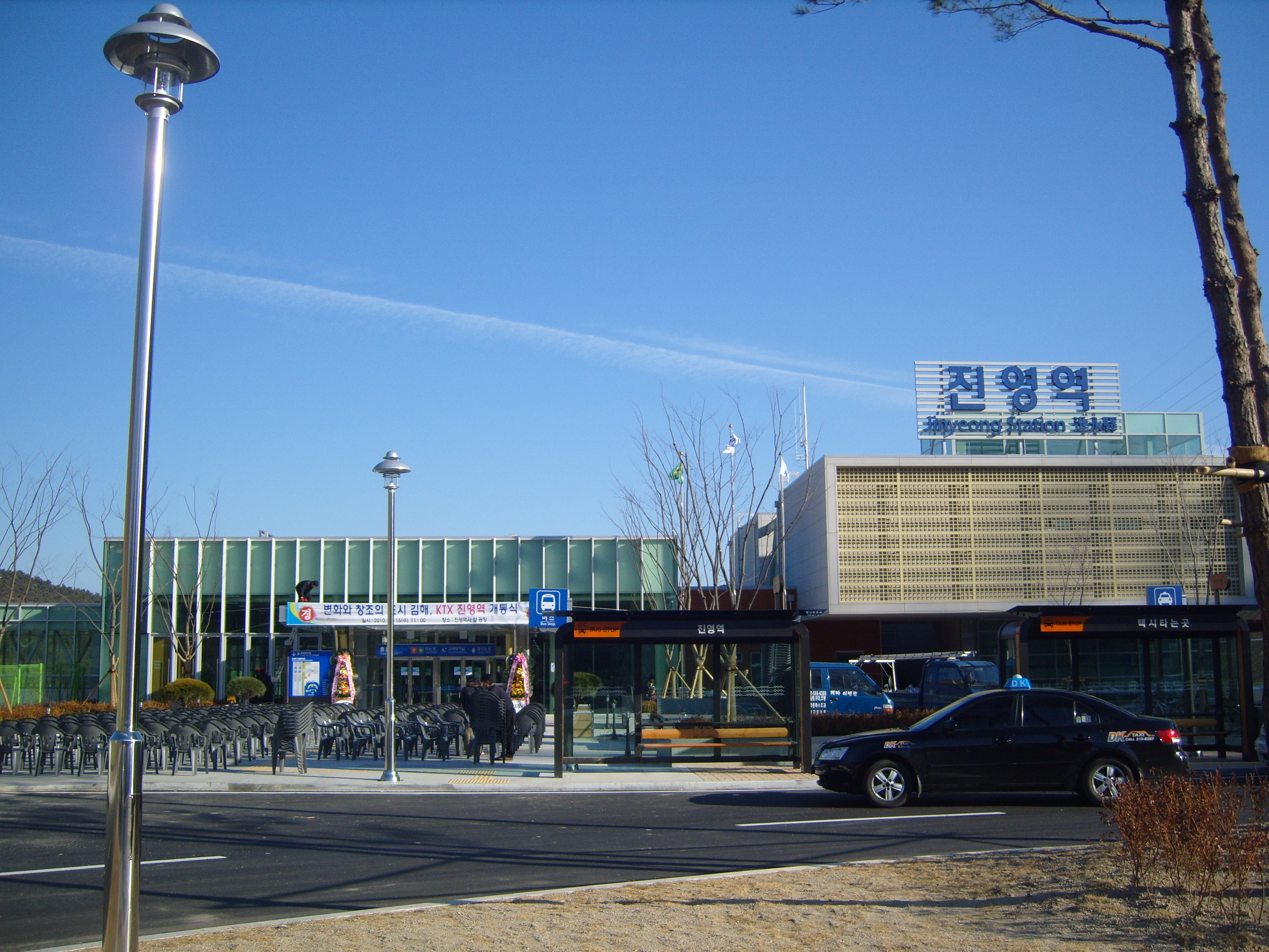 New Jin Young Station